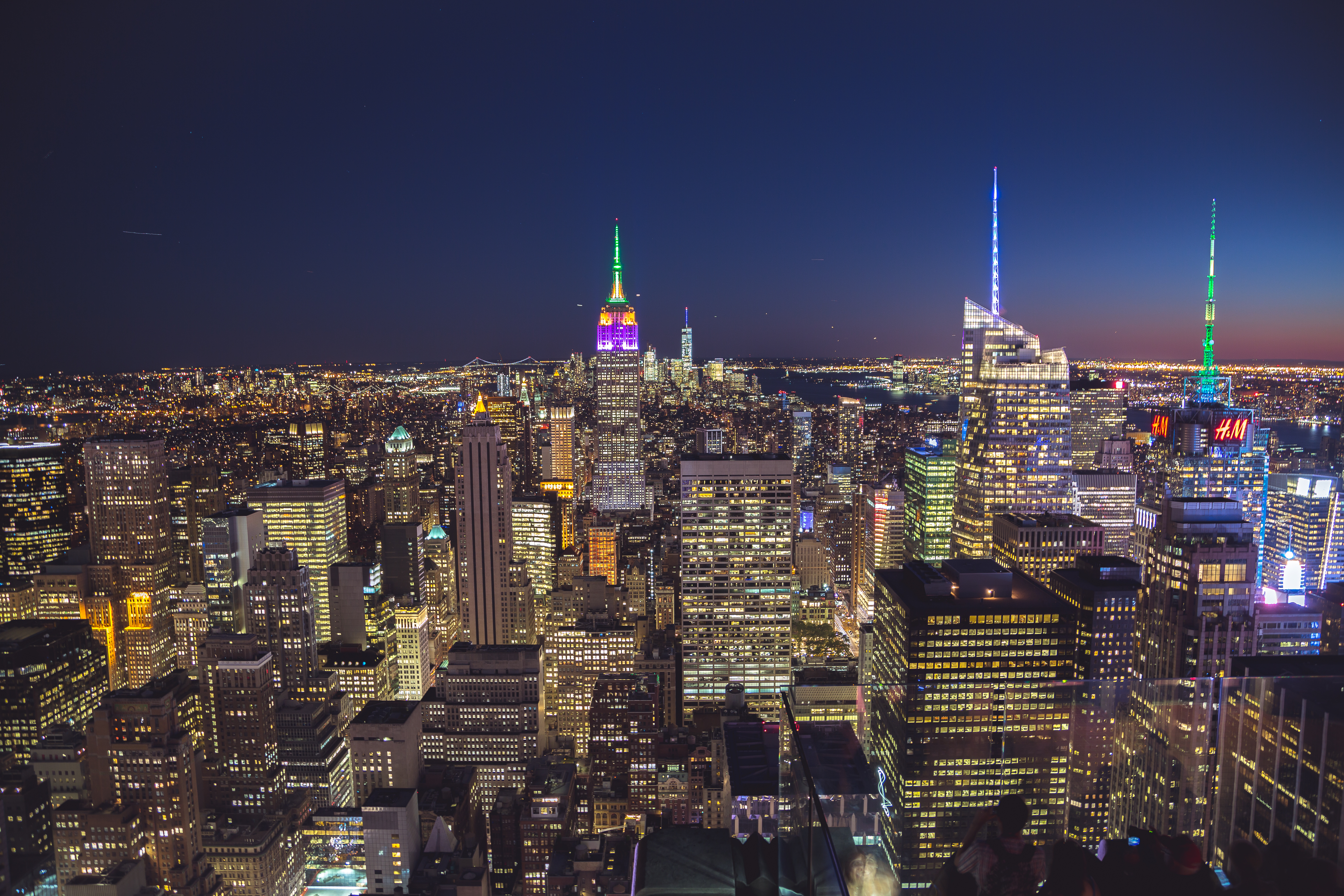 New York-6117-2